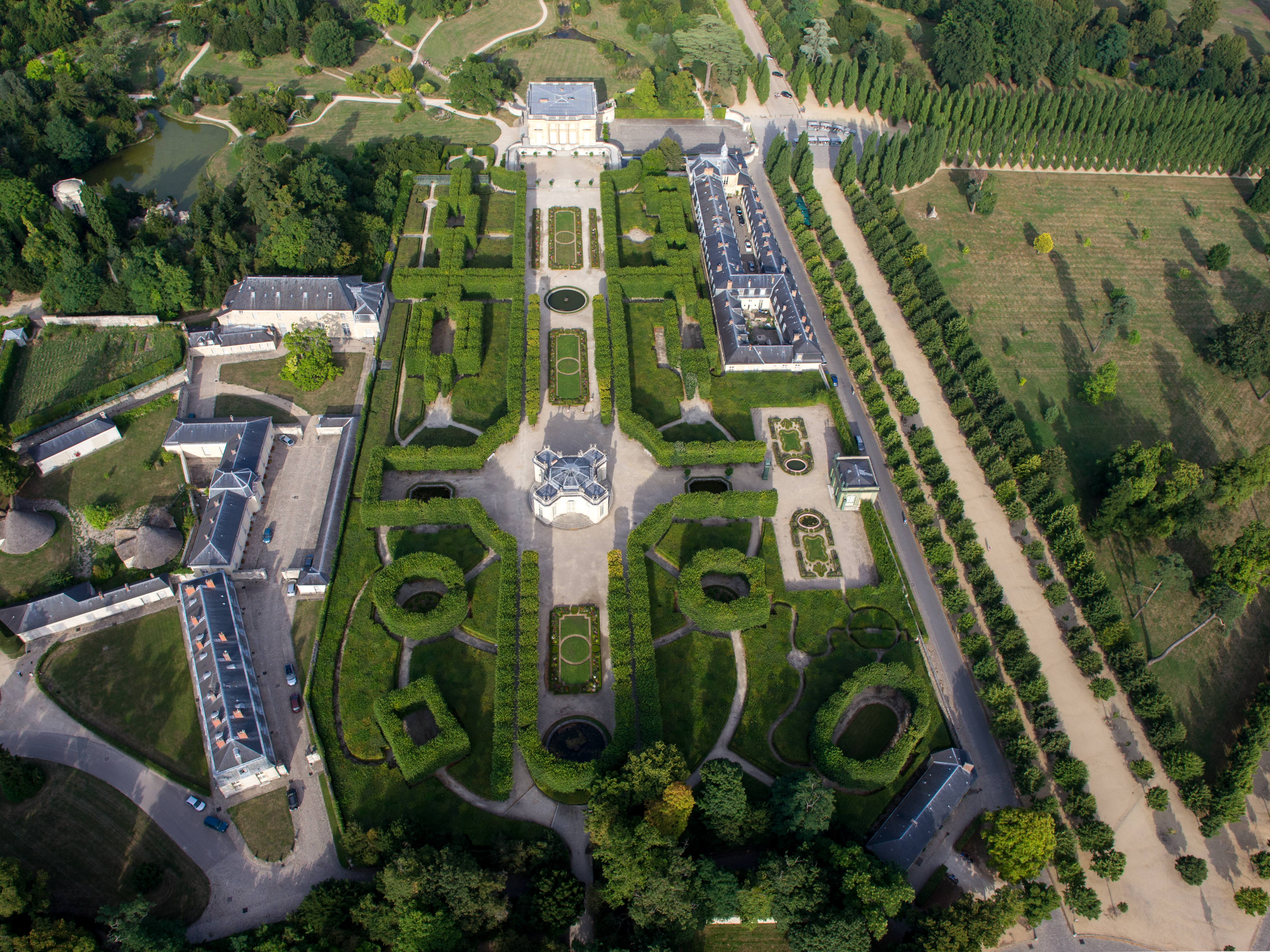 Aerial view of the Petit Trianon, Domain of Versailles, France